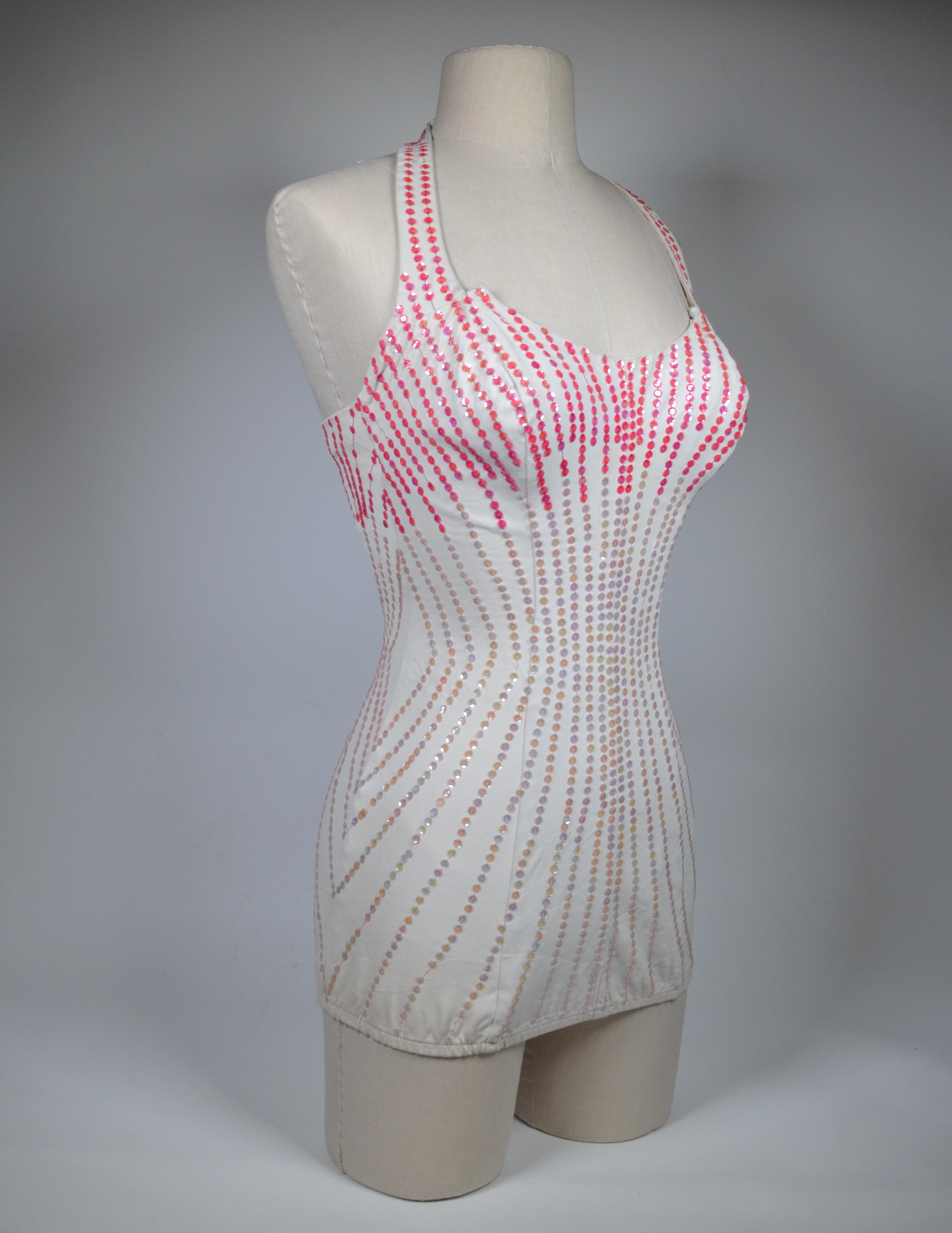 This photo shows a "Starlight" Rose Marie Reid swimsuit from 1956 owned by the Harold B. Lee Library of Brigham Young University displayed on a dressform.